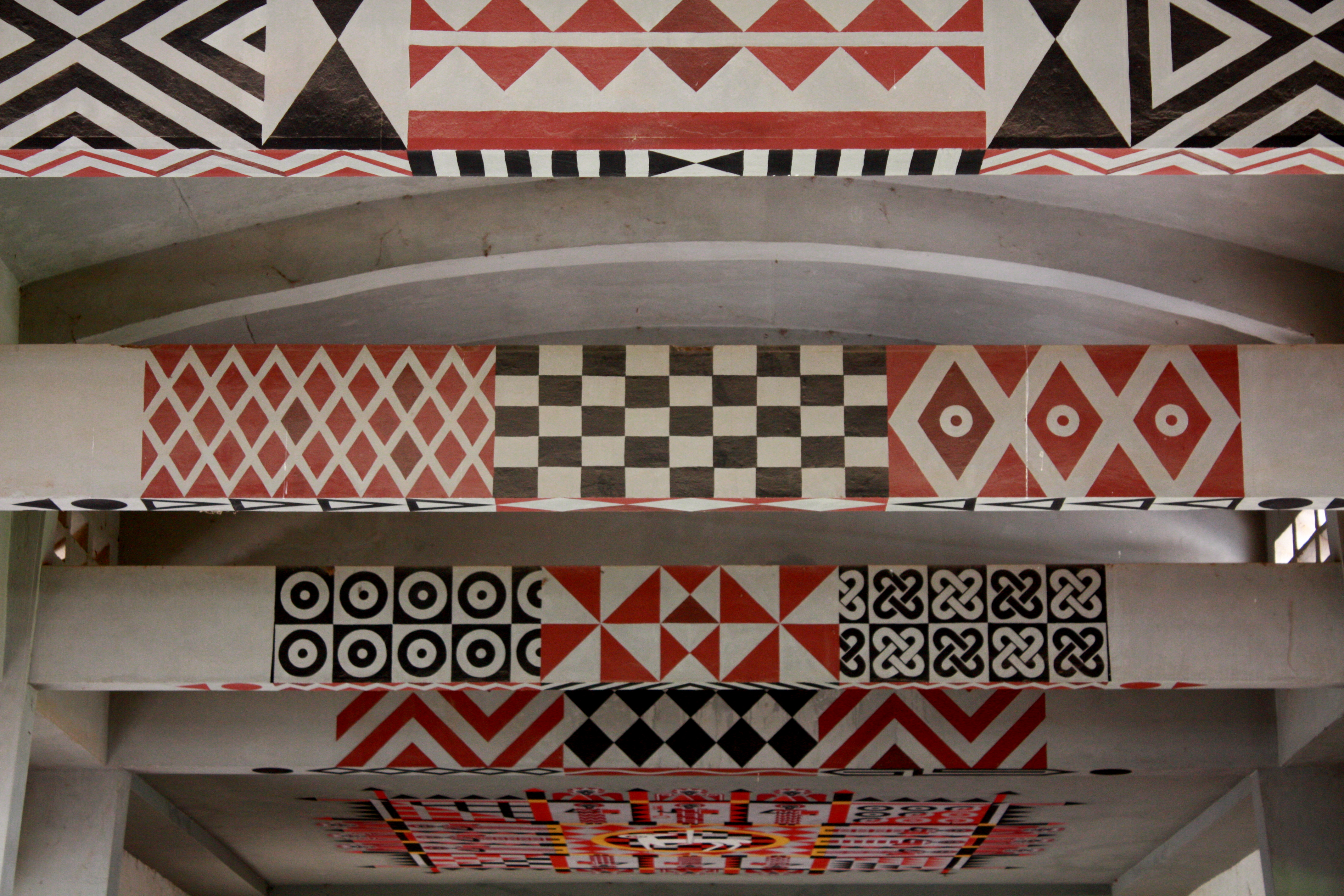 Ceiling of Keur Moussa Abbey (Senegal)